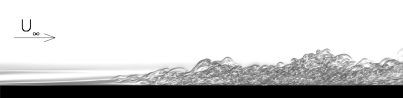 Artificial Schlieren image of a boundary layer along a flat plate becoming turbulent, obtained by direct numerical simulation (Ma=0.8, Re(delta1)≈2500). Density gradient computed with EAS3.